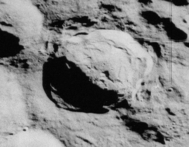 Oblique view of Innes crater, on the far side of the moon